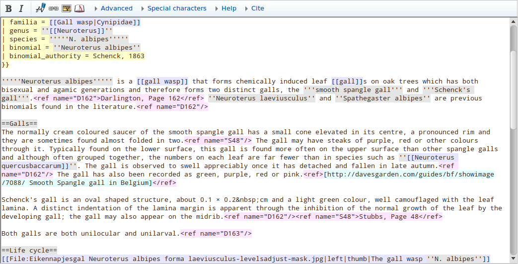 Screenshot of my syntax highlighter editing Neuroterus albipes.